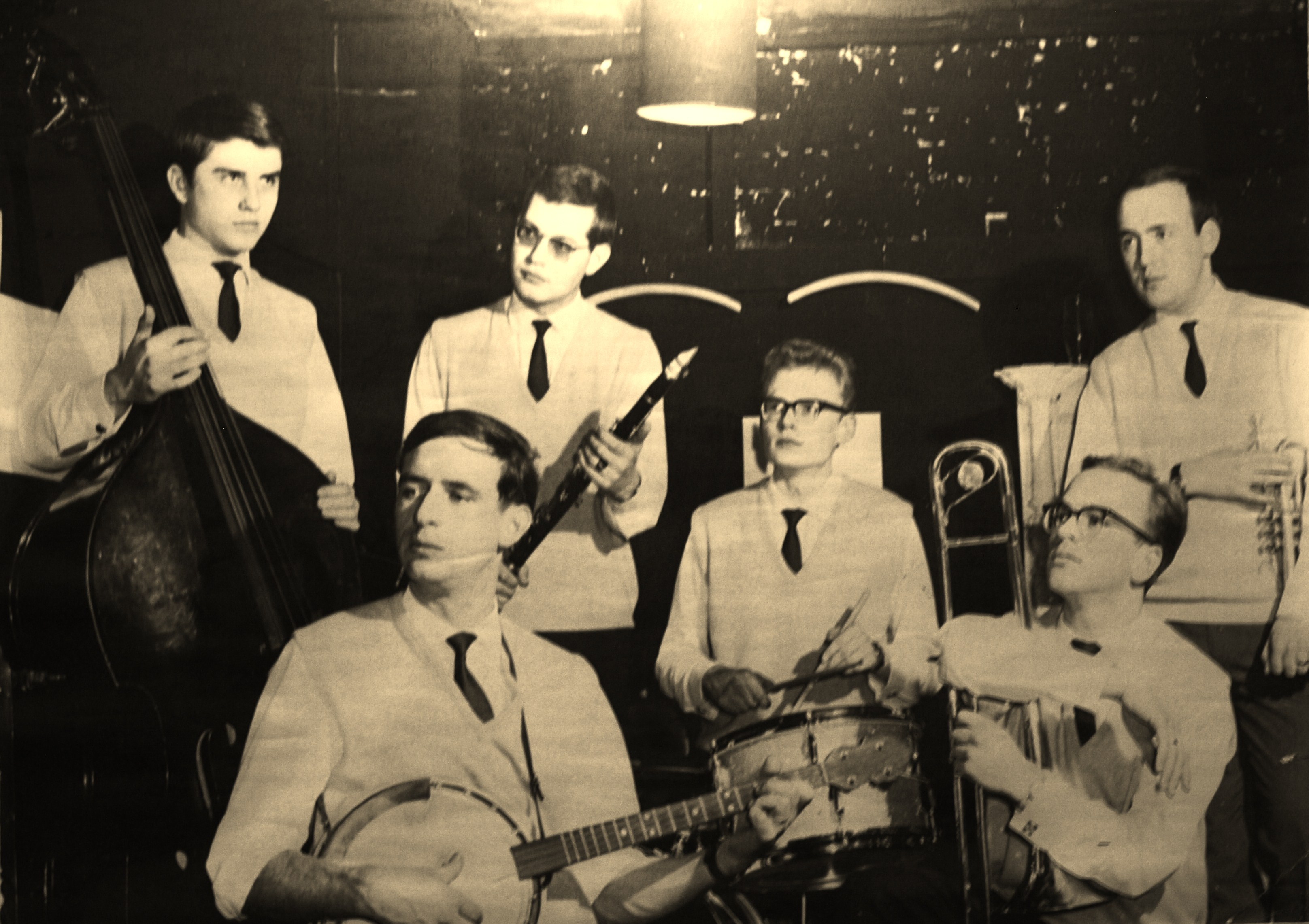 Umbrella Jazzmen 1962